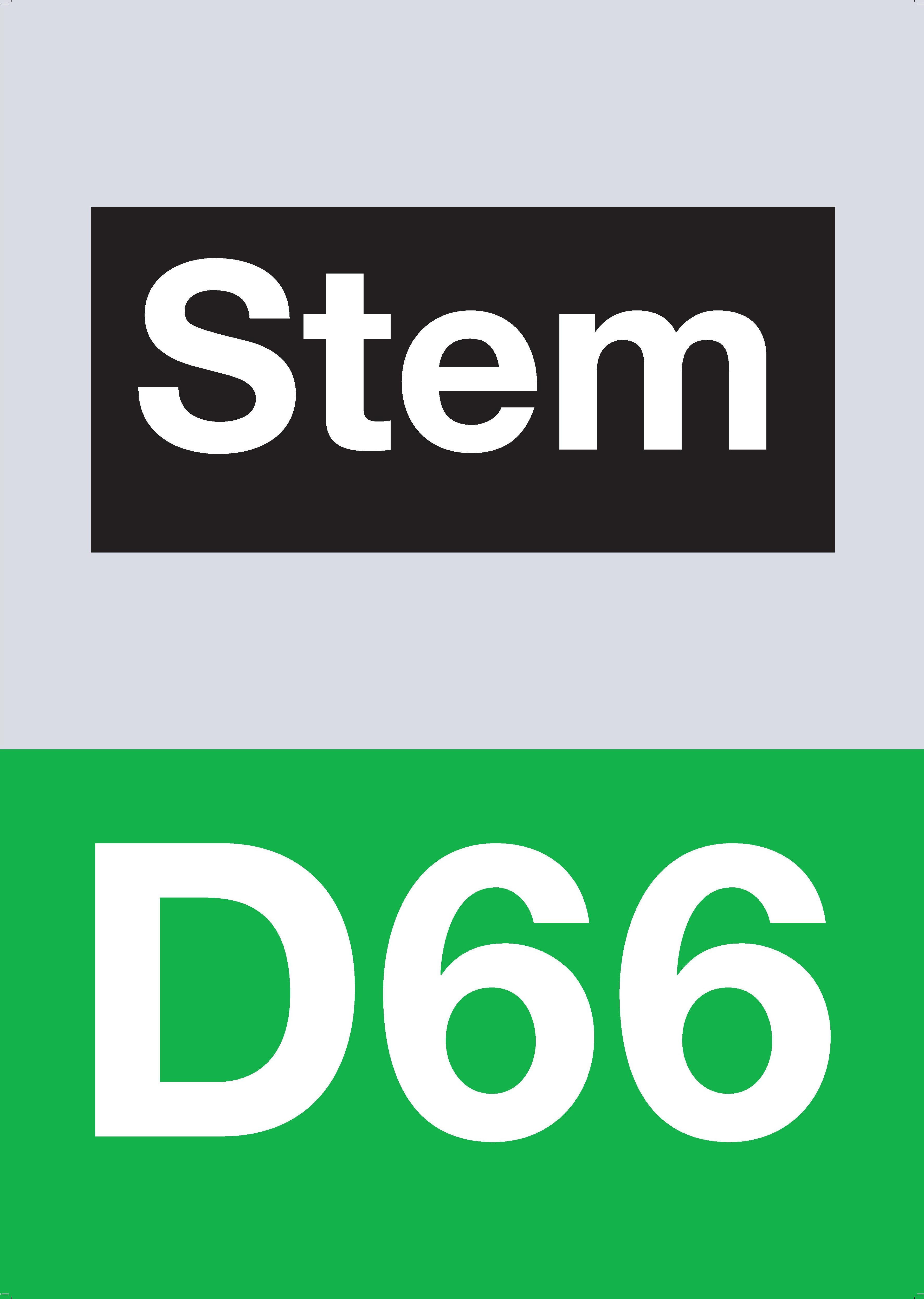 Poster used by D66 during the 2017 Dutch general elections